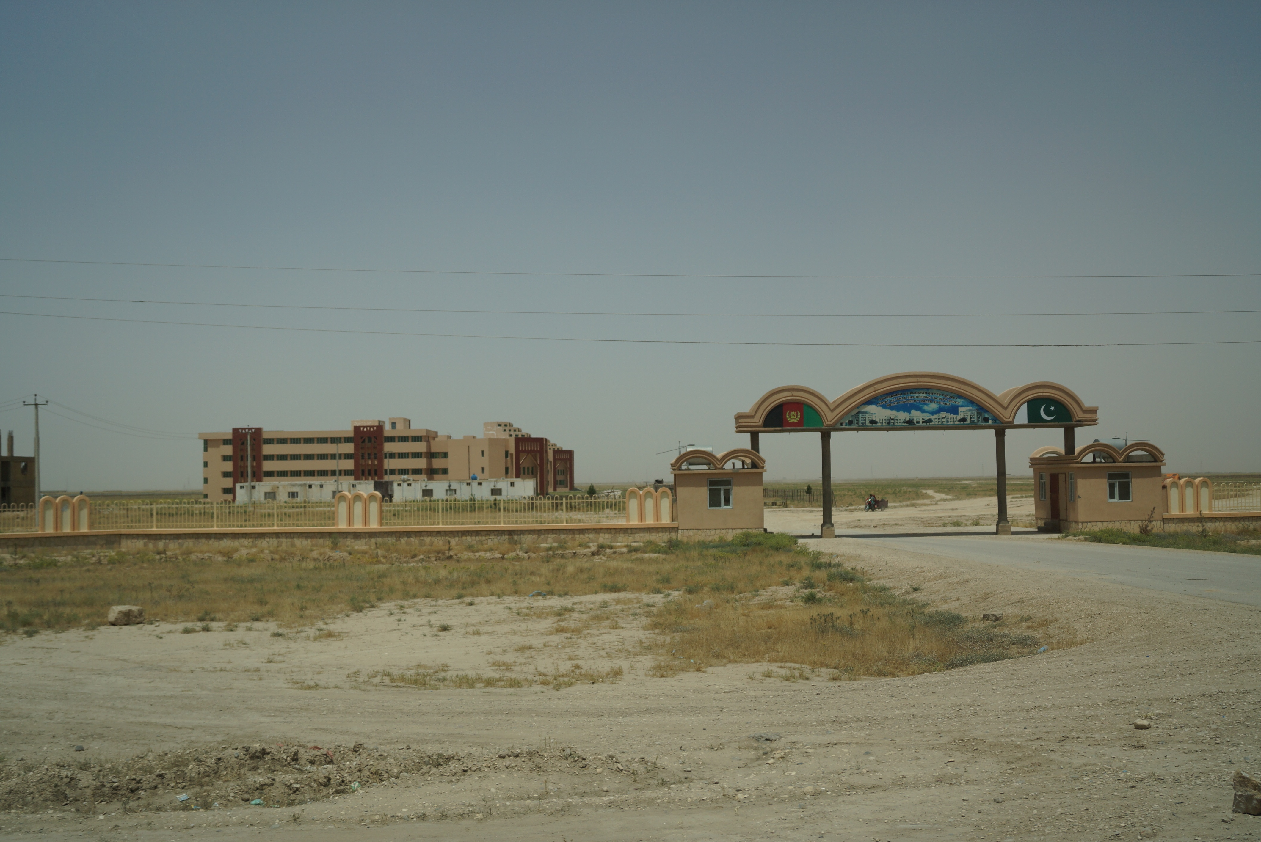 The Liaquat Ali Khan Facultiy of Engineering block of Balkh University in Mazar-e-Sharif, Afghanistan.